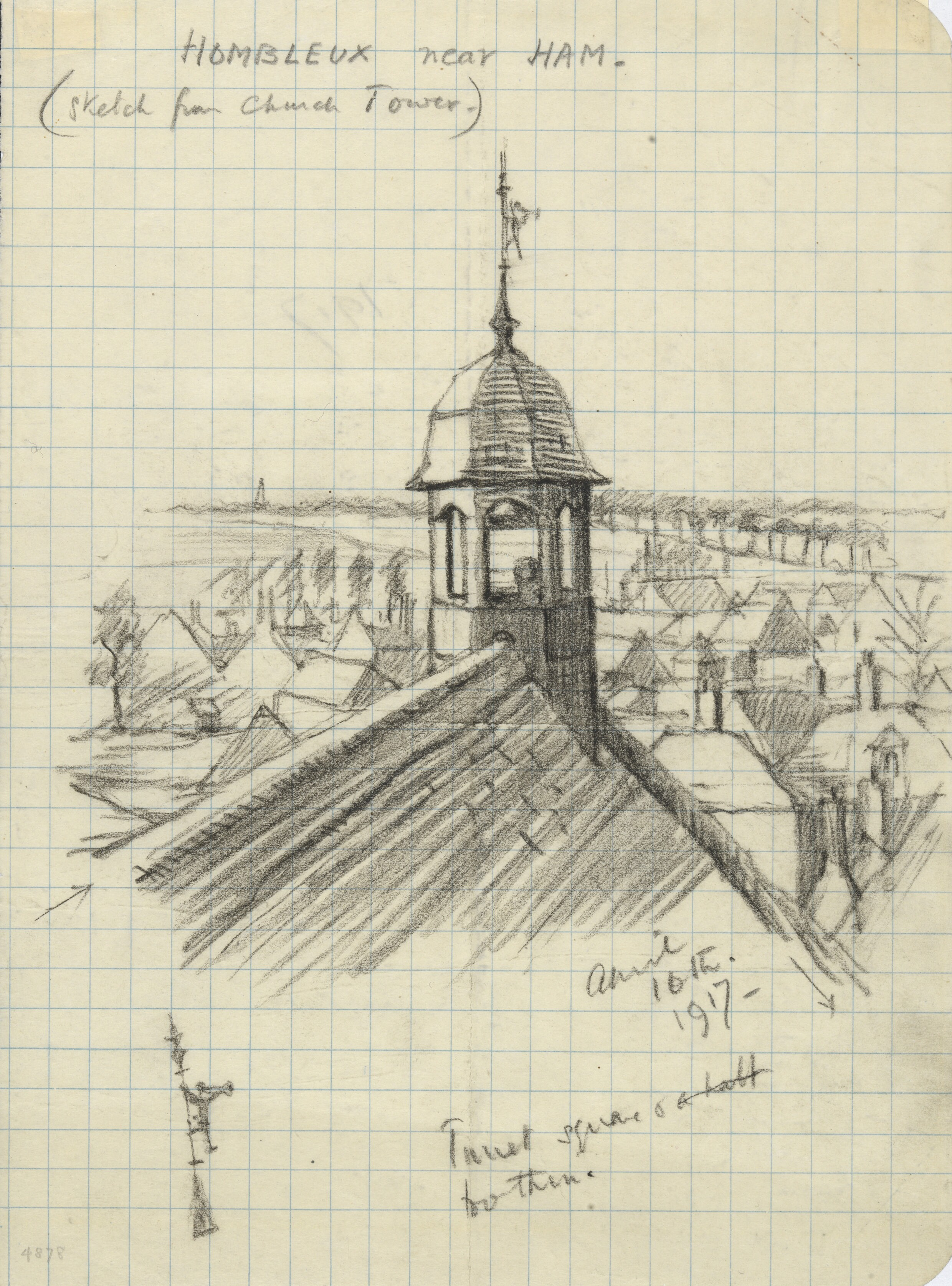 Hombleux near Ham (sketch from Church Tower), April 16th 1917 image: a sketched view across the rooftops of a small French town seen from the church tower, with the roof and small turret of the church in the foreground. Beyond are the roofs of houses, and then open countryside. There is a small study of a weather vane in the bottom left of the composition.